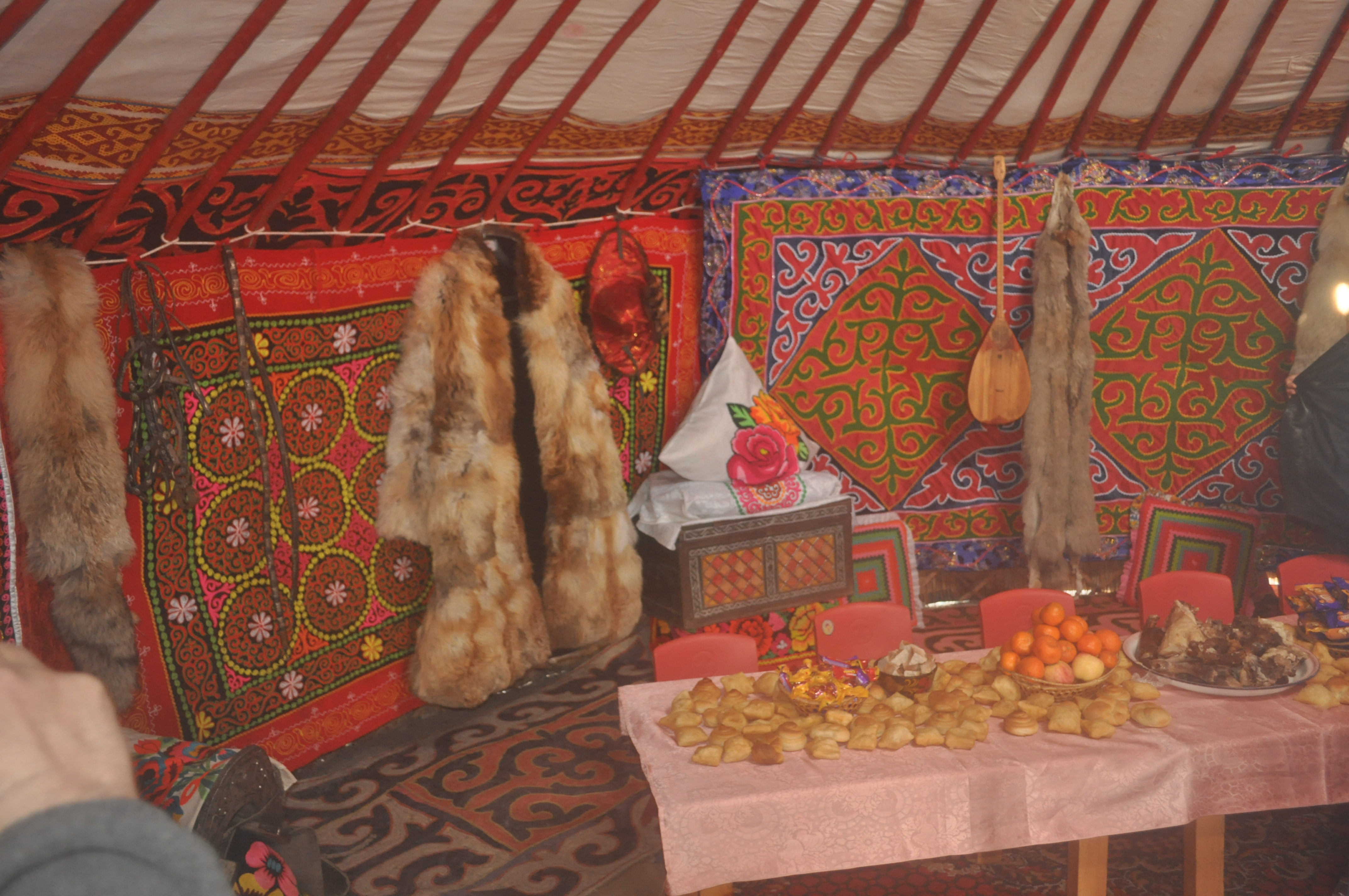 Typical Kazakh Ger in Mongolia